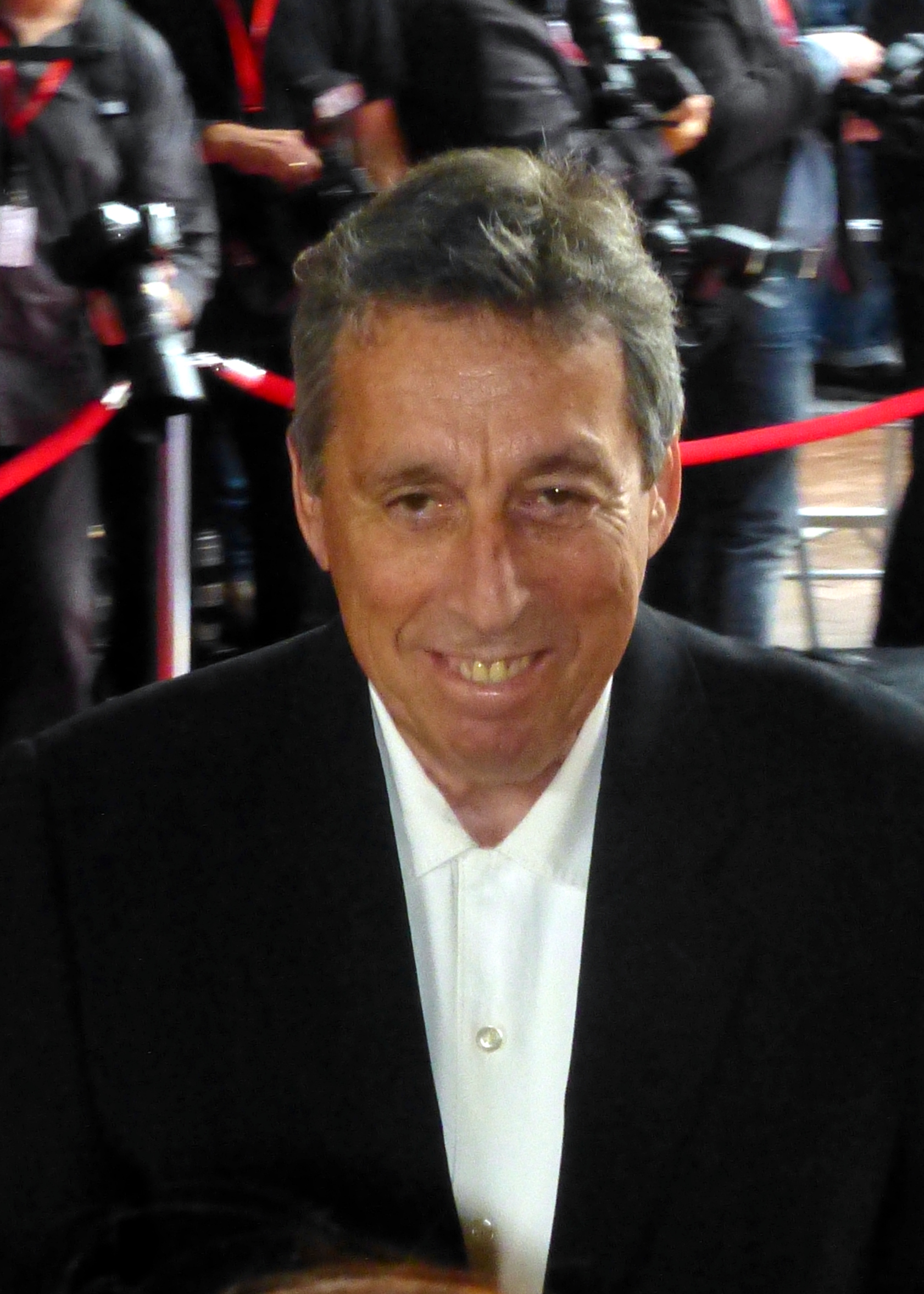 Ivan Reitman at the premiere of Labor Day, Toronto Film Festival 2013